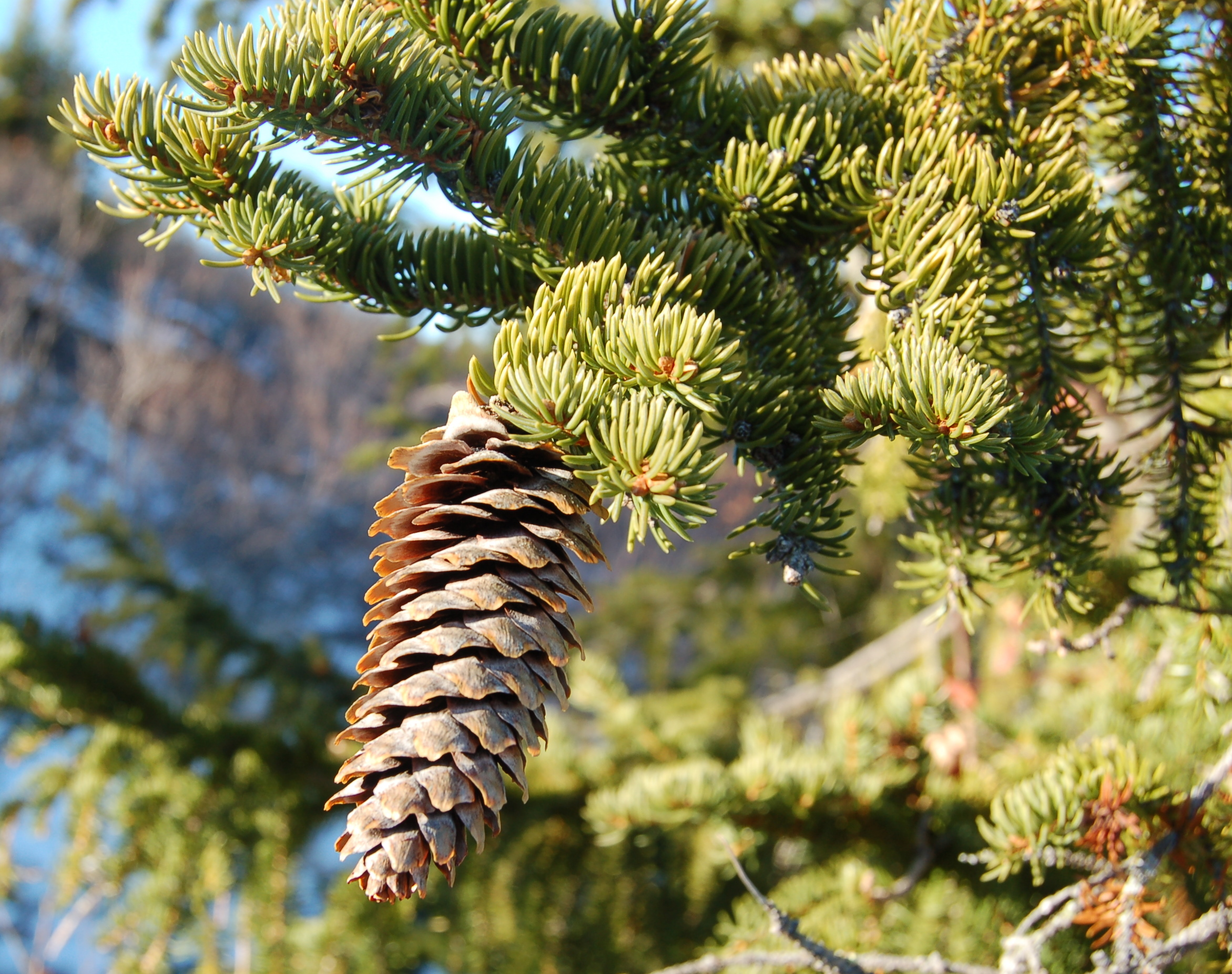 Norway Spruce at Blefjell in Norway